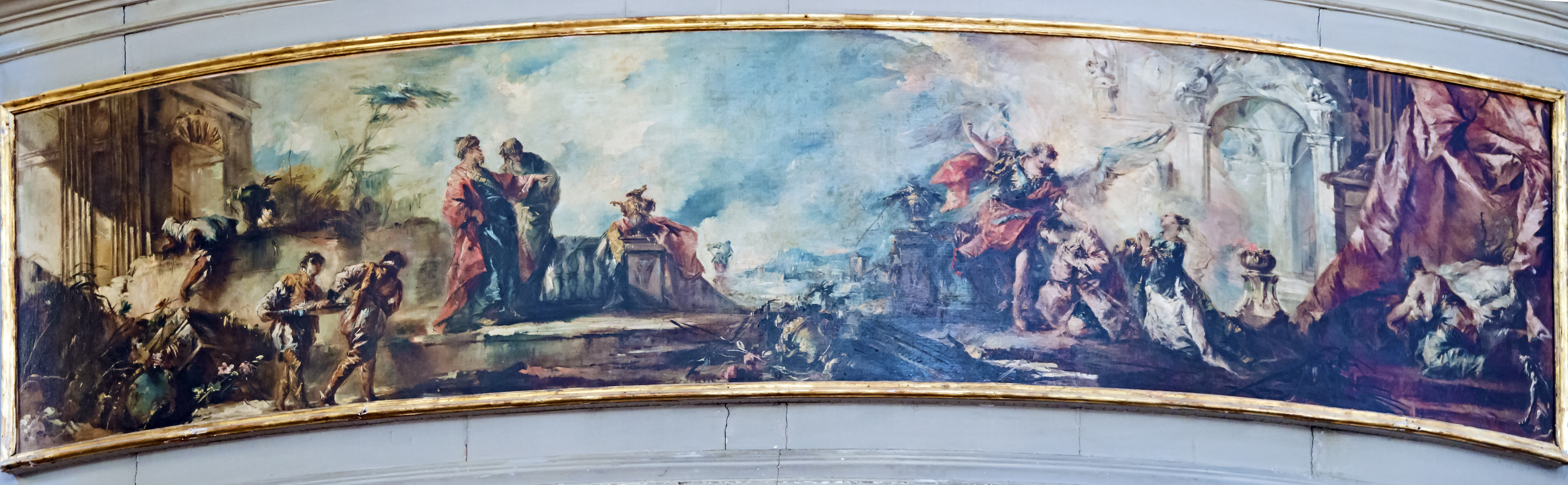 Church dell'Angelo Raffaele in Venice. "The Marriage of Tobias" by Gianantonio Guardi